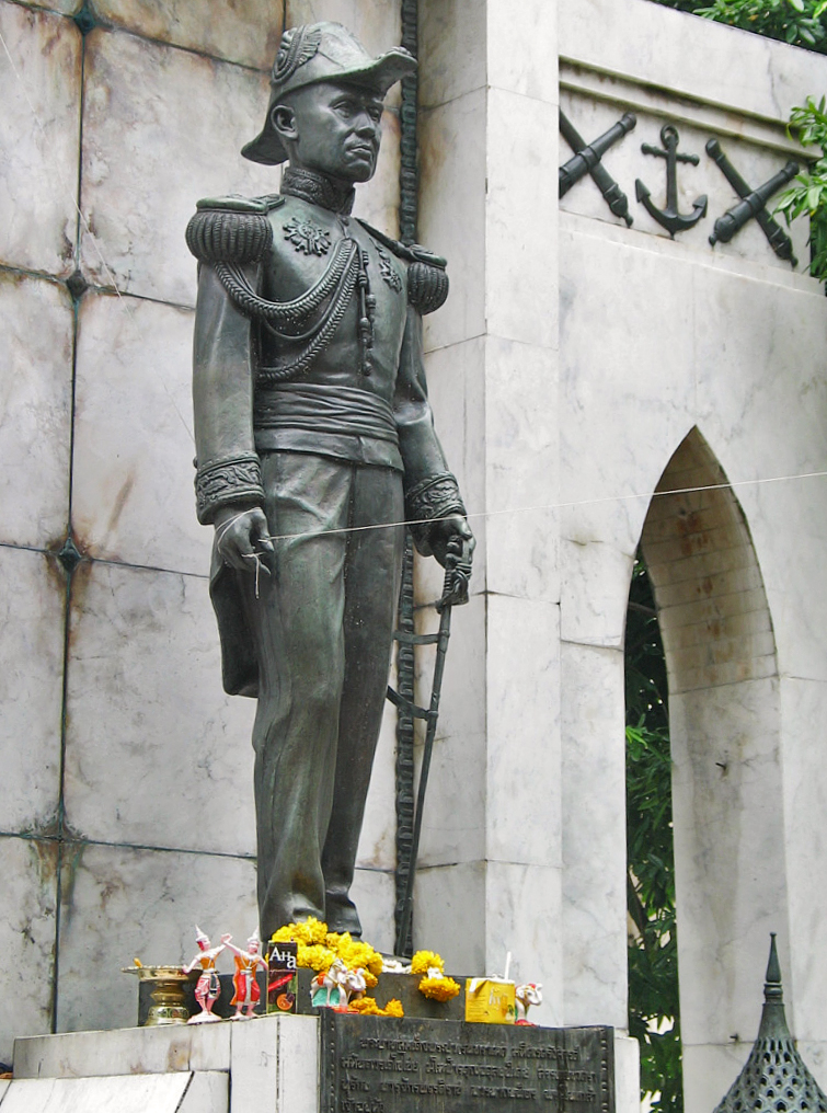 Statue of Phra Pinklao, vice-king of King Mongkut, near National Theatre, Bangkok, Thailand.